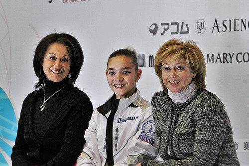 Adelina Sotnikova with their coaches Elena Buianova and Irina Tagaeva at the 2010-2011 Junior Grand Prix of Figure Skating Final.